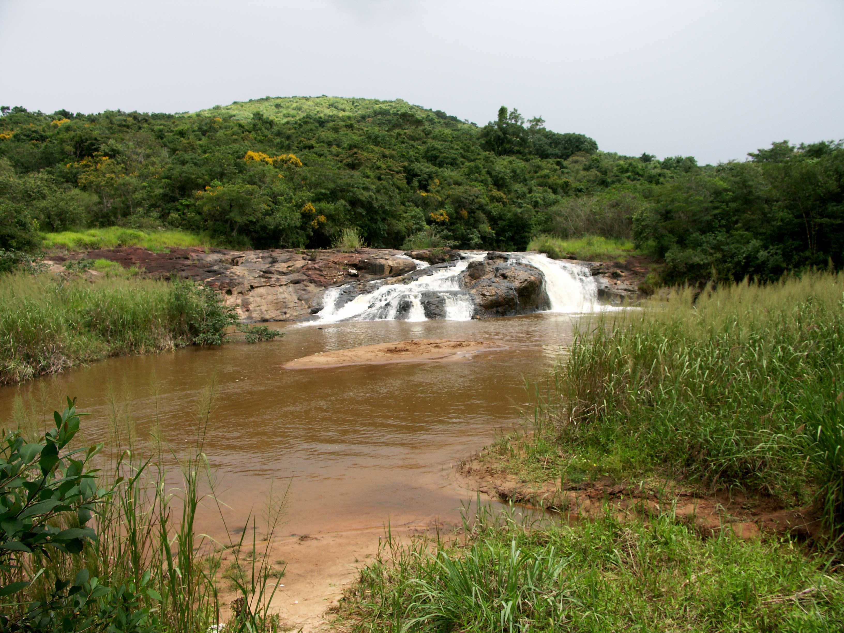 Waterfall of Cachoeirinha, Monte Santo de Minas, MG, Brazil